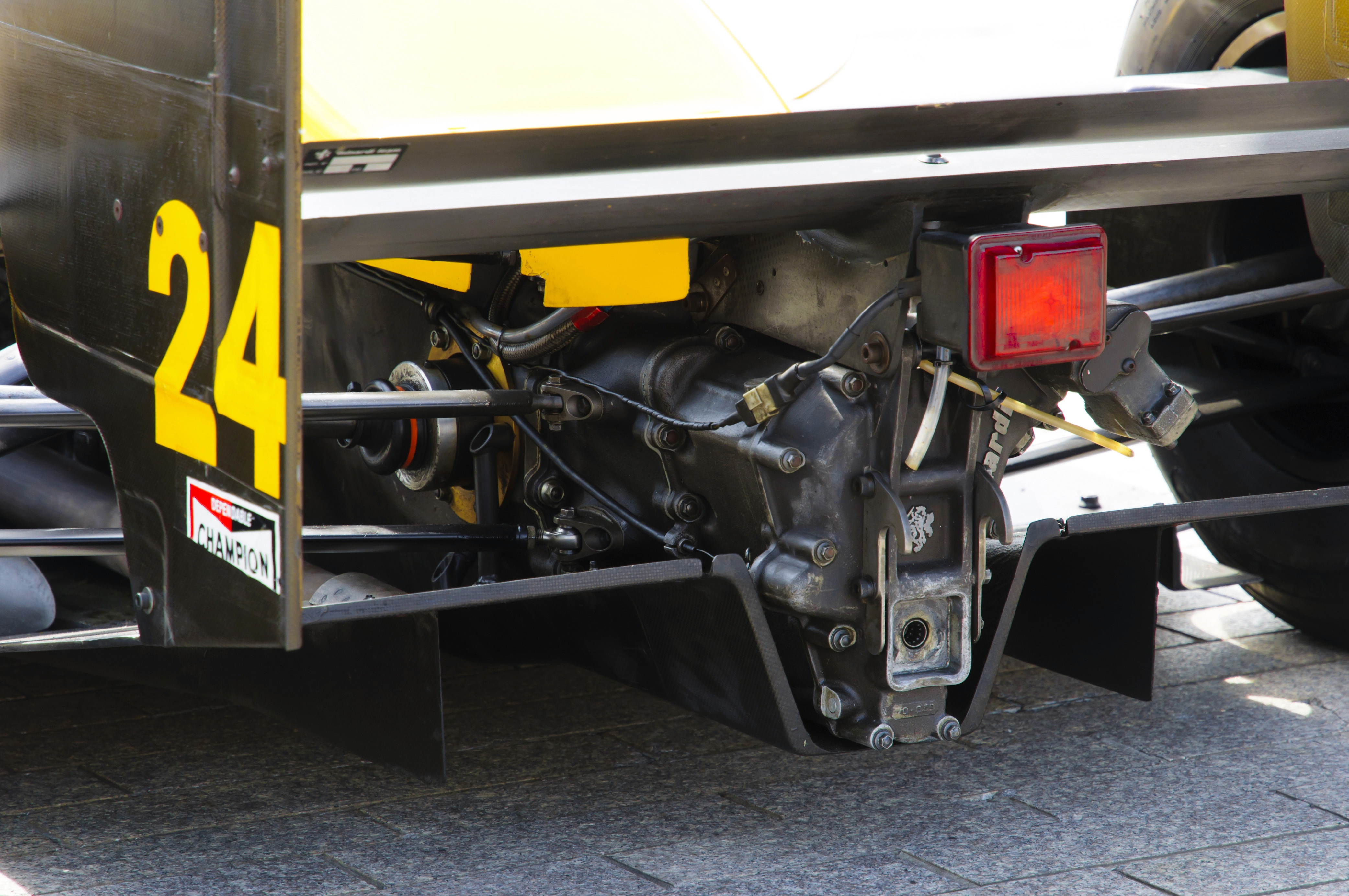 Minardi M190 [1990]